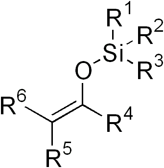 General structure of a silyl enol ether created with ChemDraw.